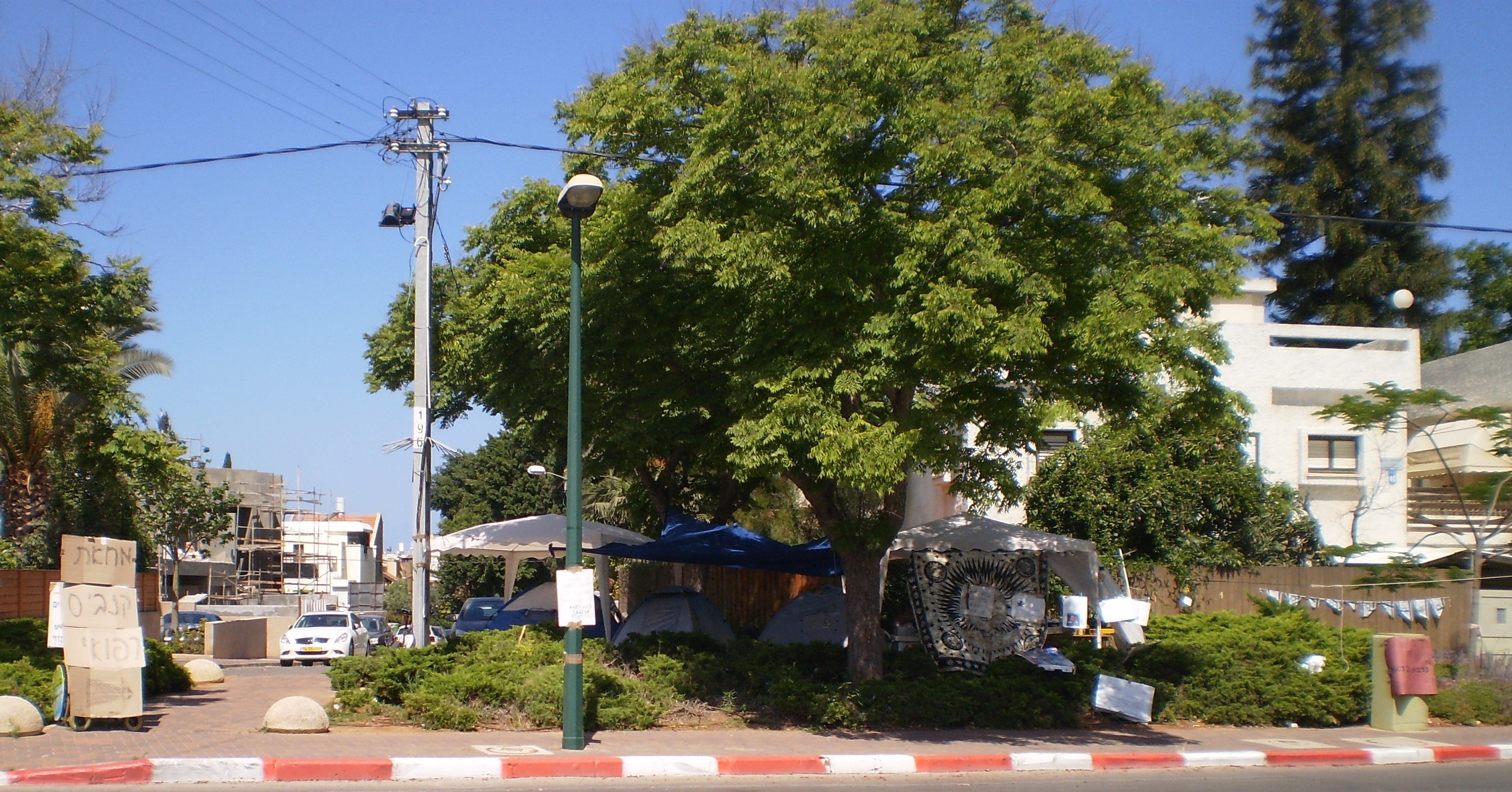 Medical Cannabis protest near home of Israelws health minister, Yael German